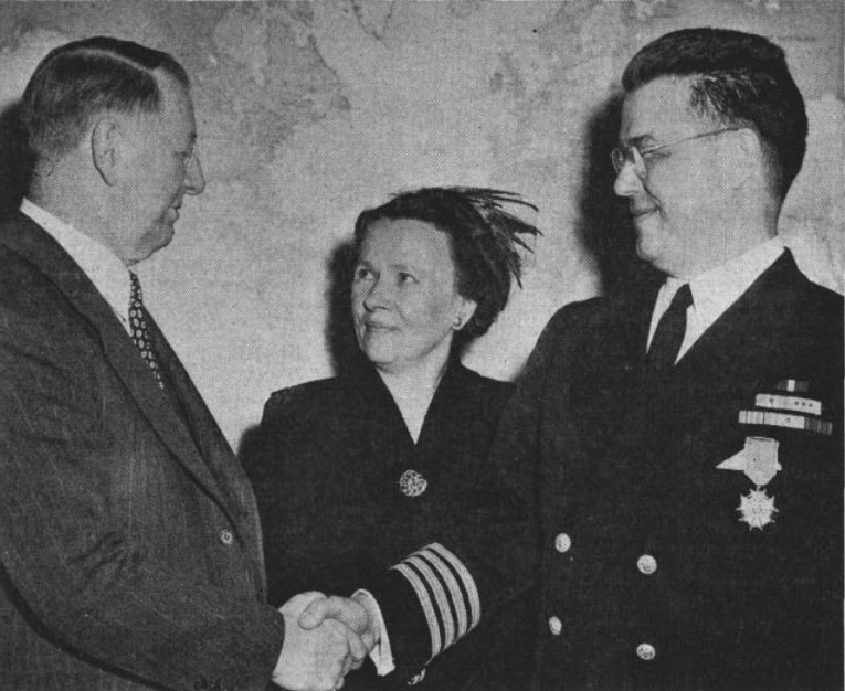 Battleship commander cited: Rear admiral Willard A. Kitts III, USN, of Washington, D.C., is congratulated by Secretary of the Navy Frank Knox following presentation of the Legion of Merit, while Mrs. Kitts looks on. Admiral Kitts (then Captain) was honored for his conduct as commanding officer of a battleship USS Nevada during the occupation of Attu Island in May 1943. He was promoted to flag rank after receiving the award.